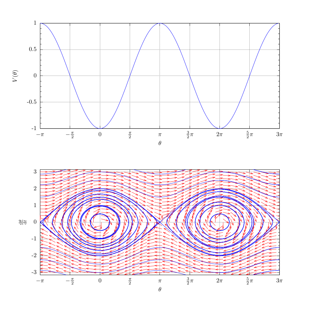 Phase portrait of an undamped simple pendulum. The diagram was plotted using with GNU Octave using gnuplot backend and saved as a standalone LaTeX file. The PDF generated was then converted to SVG using pdf2svg. The octave source file is provided in the SVG version mentioned below.